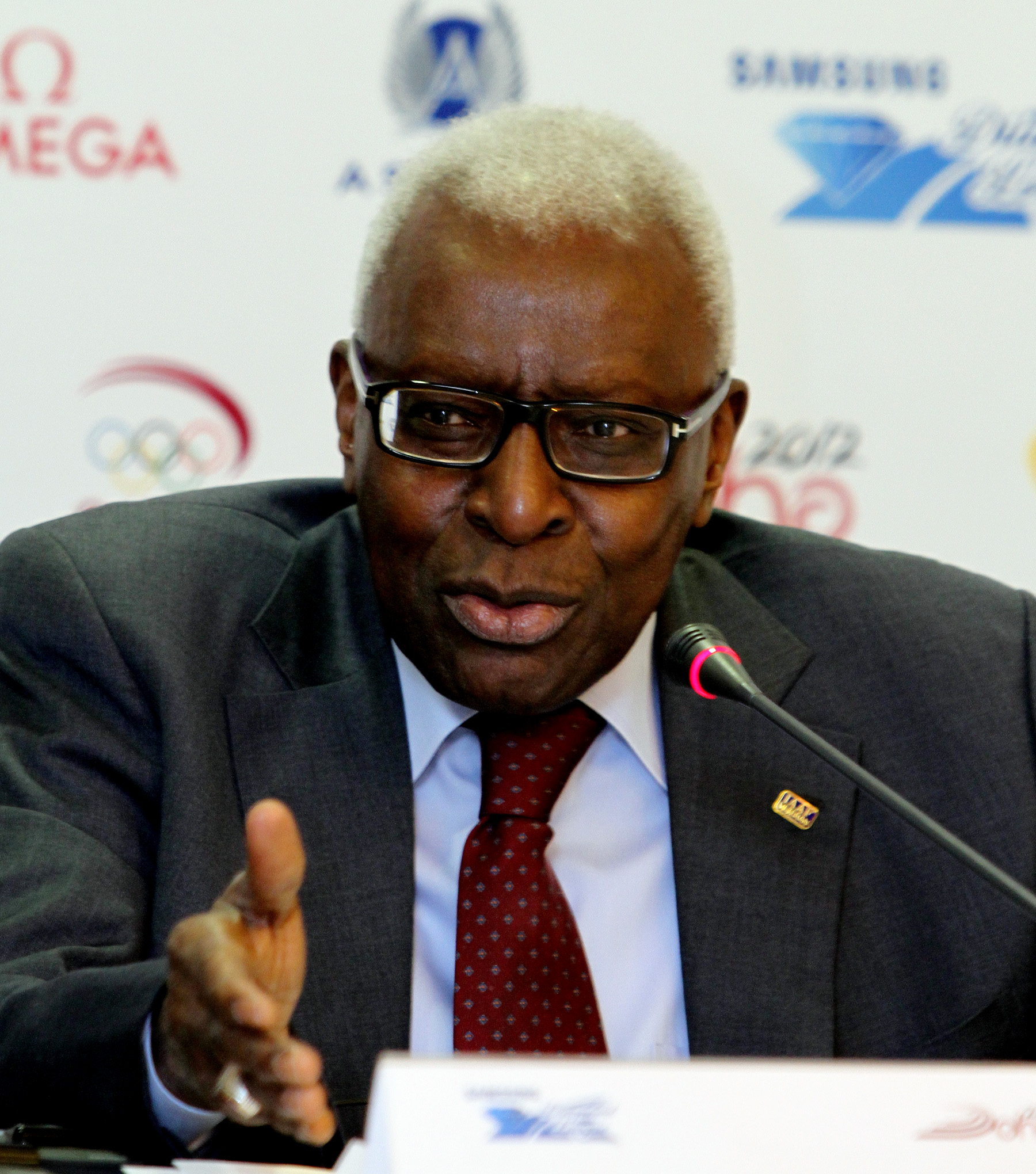 IAAF President Lamine Diack attends a Press conference prior to the 2012 Diamond League in Doha. Picture by Vinod Divakaran